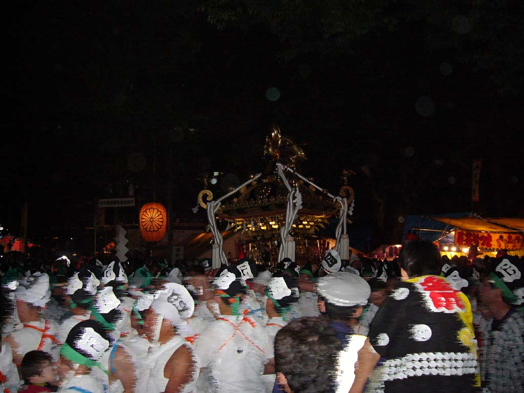 Kurayami Matsuri. 大國魂神社くらやみ祭, Fuchu (Tokyo).